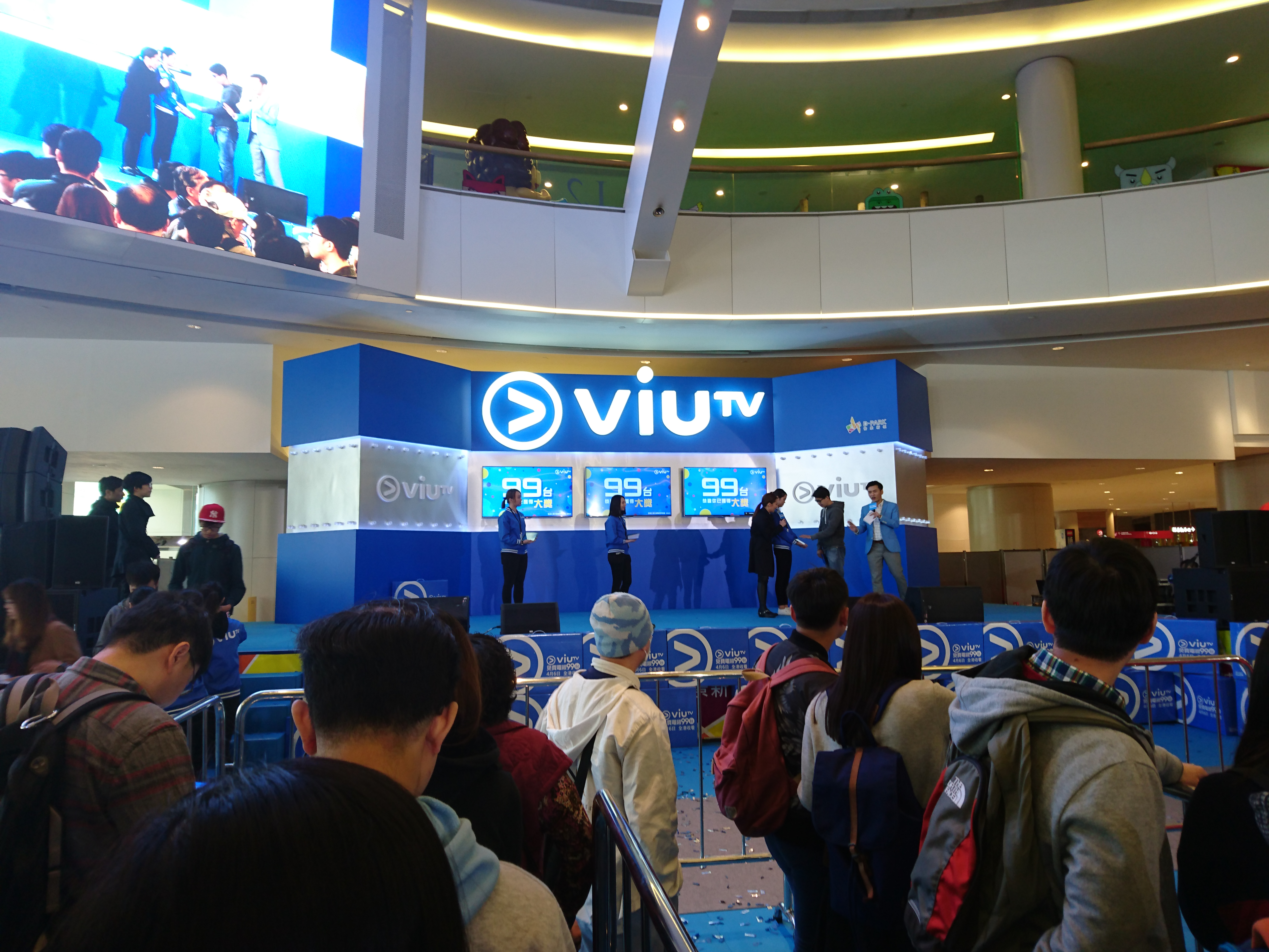 ViuTV Promotion Event in D Park